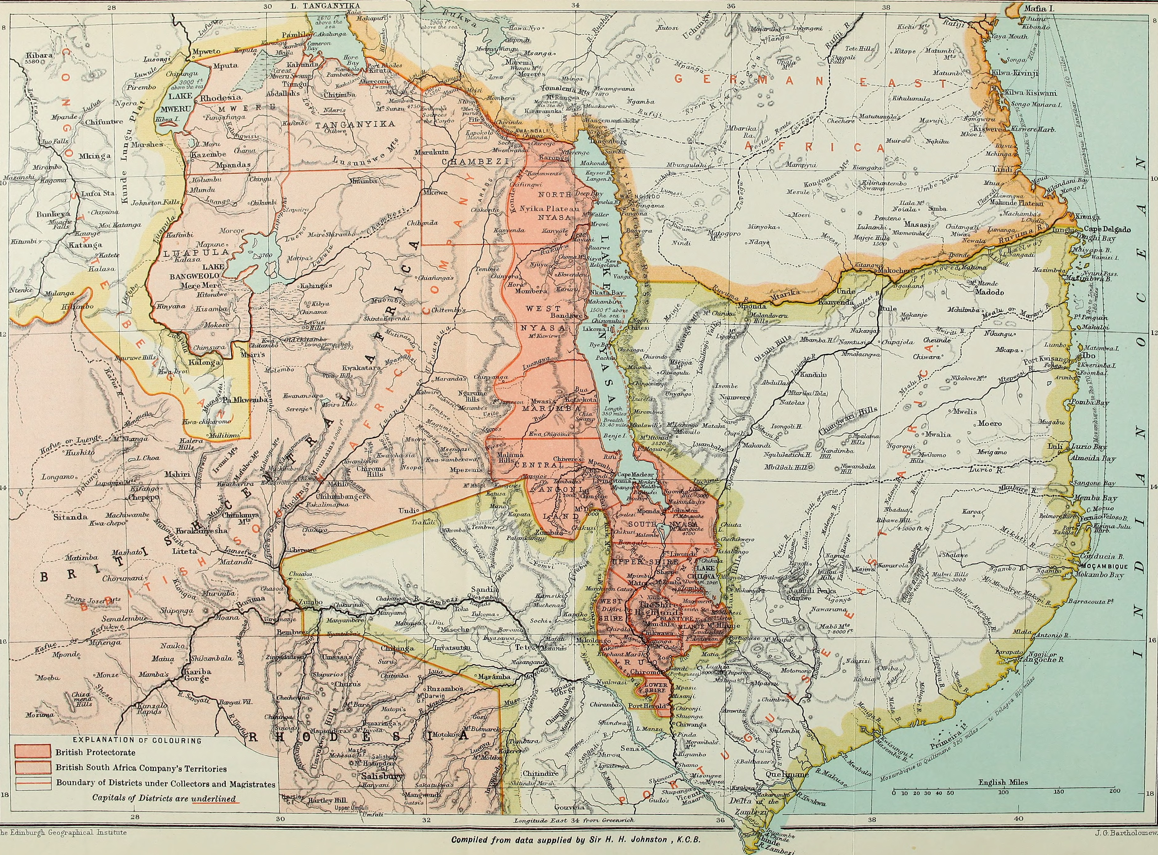 Title: British Central Africa; an attempt to give some account of a portion of the territories under British influence north of the Zambezi Year: 1897 (1890s) Authors: Johnston, Harry Hamilton, Sir, 1858-1927 Subjects: Natural history Publisher: New York, Edward Arnold Text Appearing Before Image: MAP OF BRITISH CENTKAL AFRICA SHOWING ADMINISTRATIVE DIVISIONS Text Appearing After Image: The Edmburgb. Geographical Institute Compiled from data supplied by Sir H. H. Johnston , K.C.B. J. CxBartholomevr.